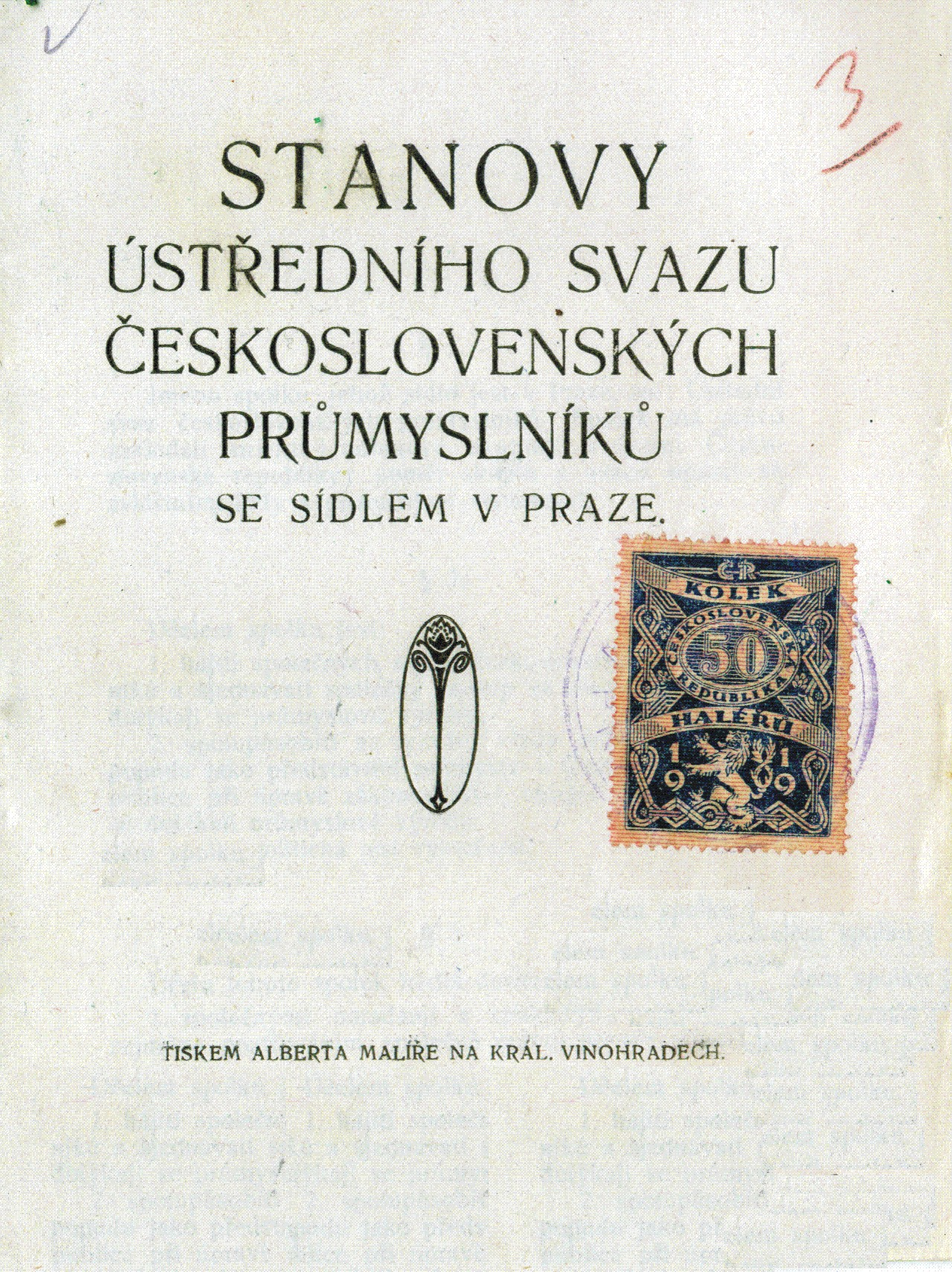 code of rules of Czech confederation on industry